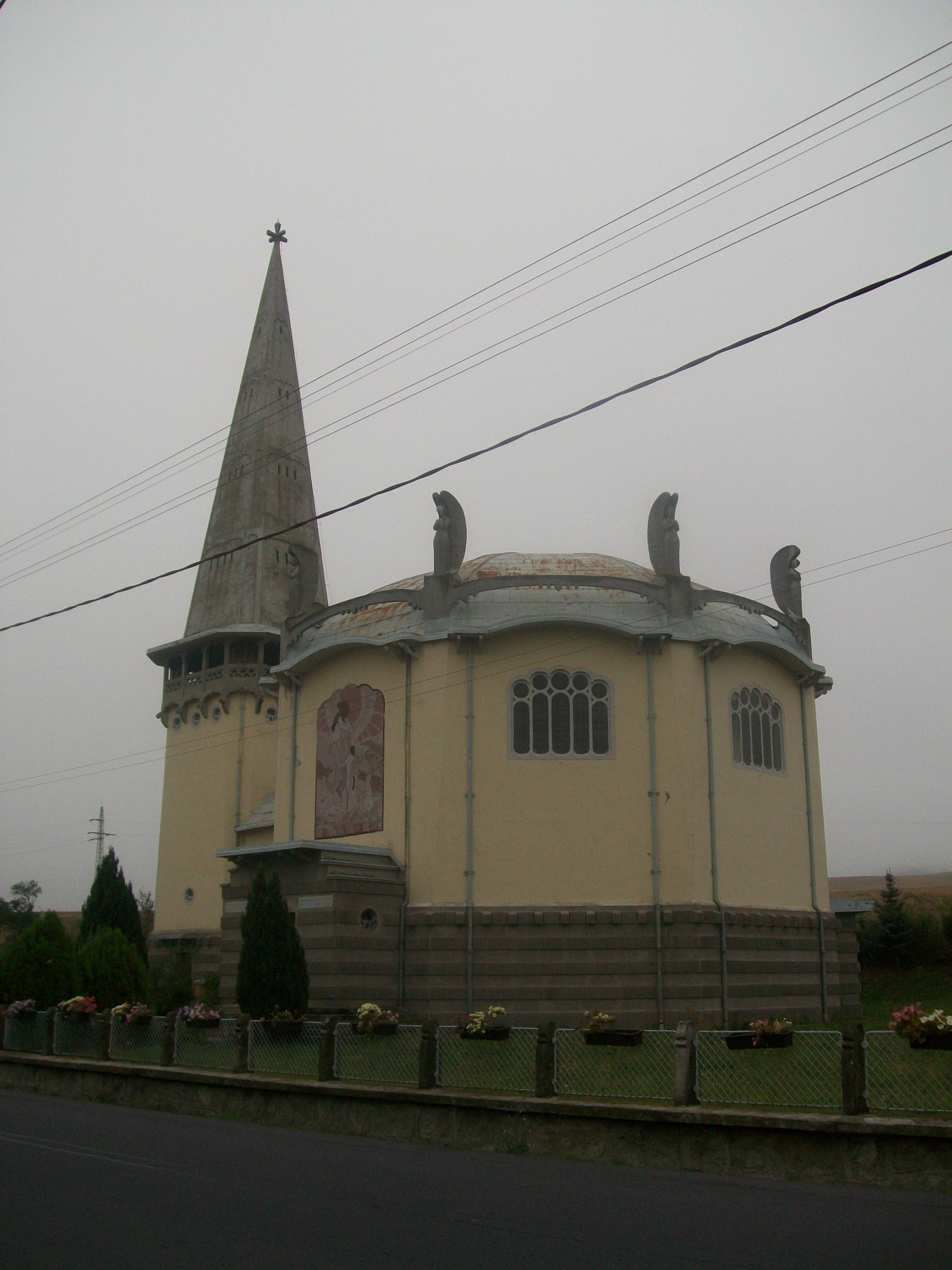 St. Elizabeth's Church in the village Muľa, building with bold architectural design was the first reinforced concrete structure between the churches in the territory of the former Kingdom of Hungary.